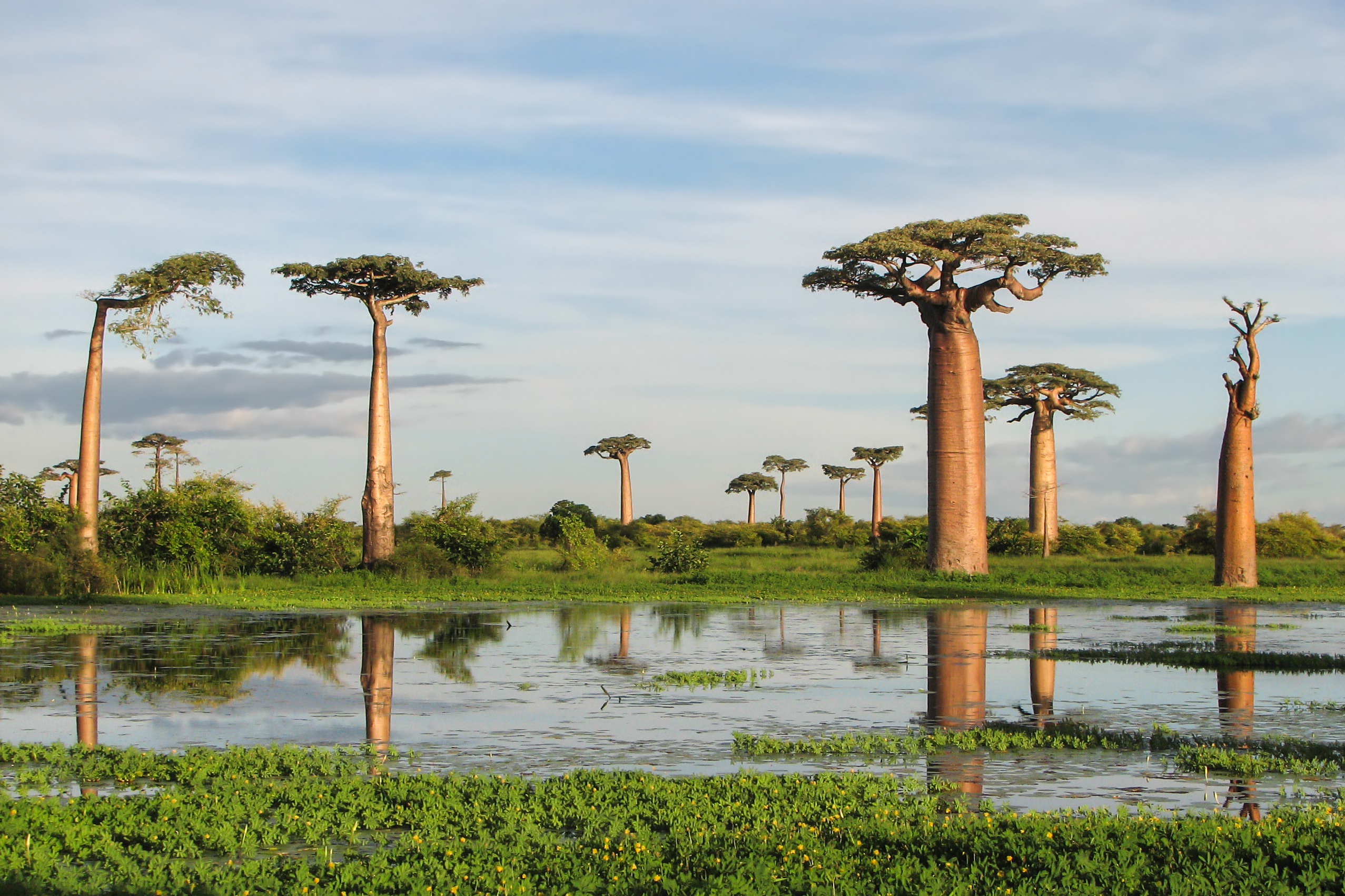 Grandidier's Baobab (Adansonia grandidieri), near Morondava, Madagascar